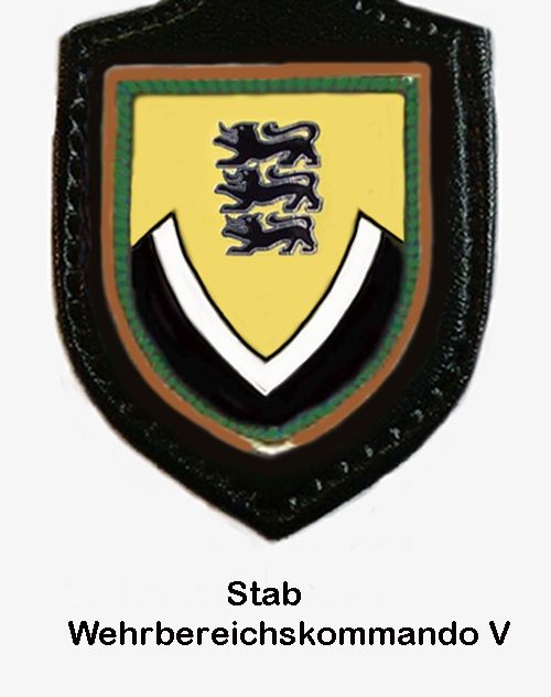 Internal coat of arms Stab Wehrbereichskommando V (WBK V) of the Bundeswehr (Armed Forces of the Federal Republic of Germany). → Remarks on naming and categorization scheme